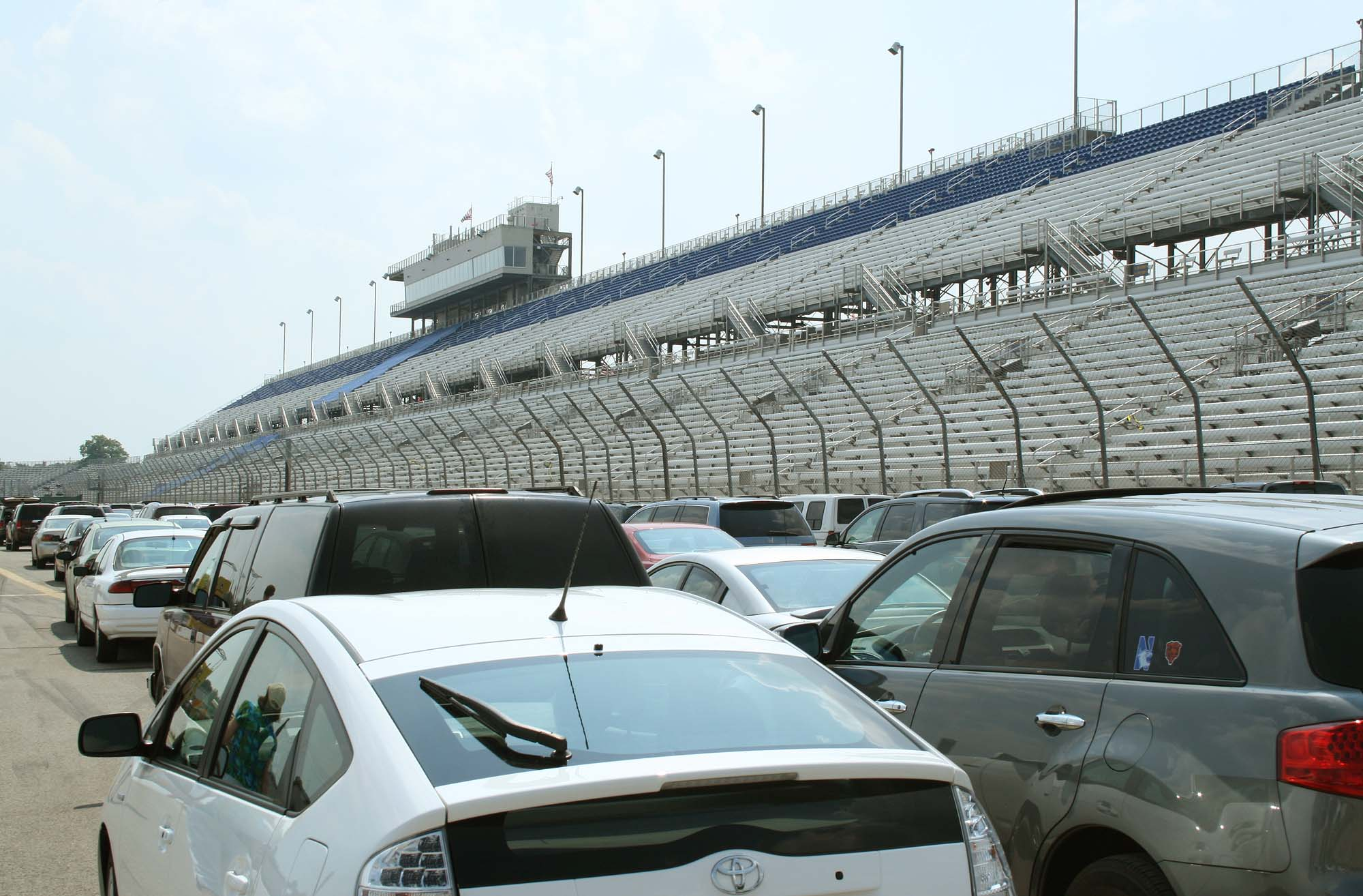 The grandstand at the Milwaukee Mile race track. Photo taken from the track during the Wisconsin State Fair, when it was used for parking. Looks like a crowded starting grid.